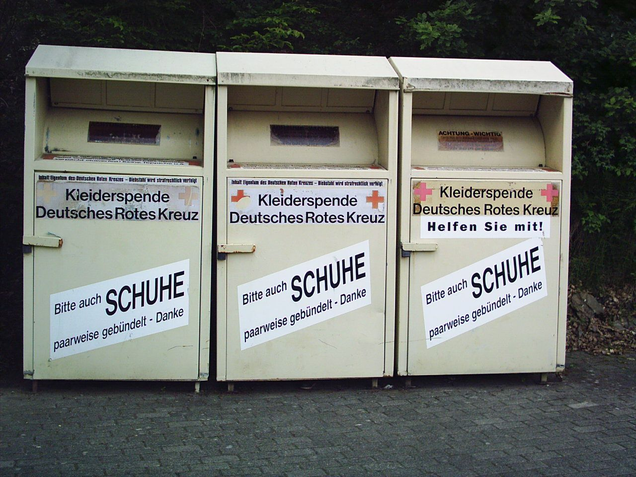 Container of DRK (German Red Cross) check usage